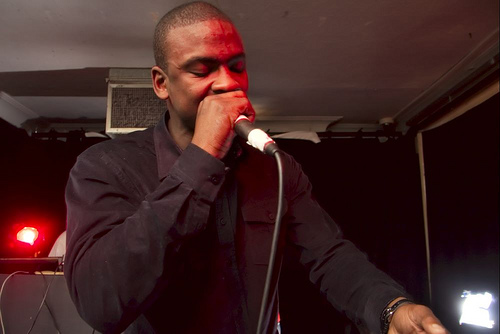 Skepta in a concert